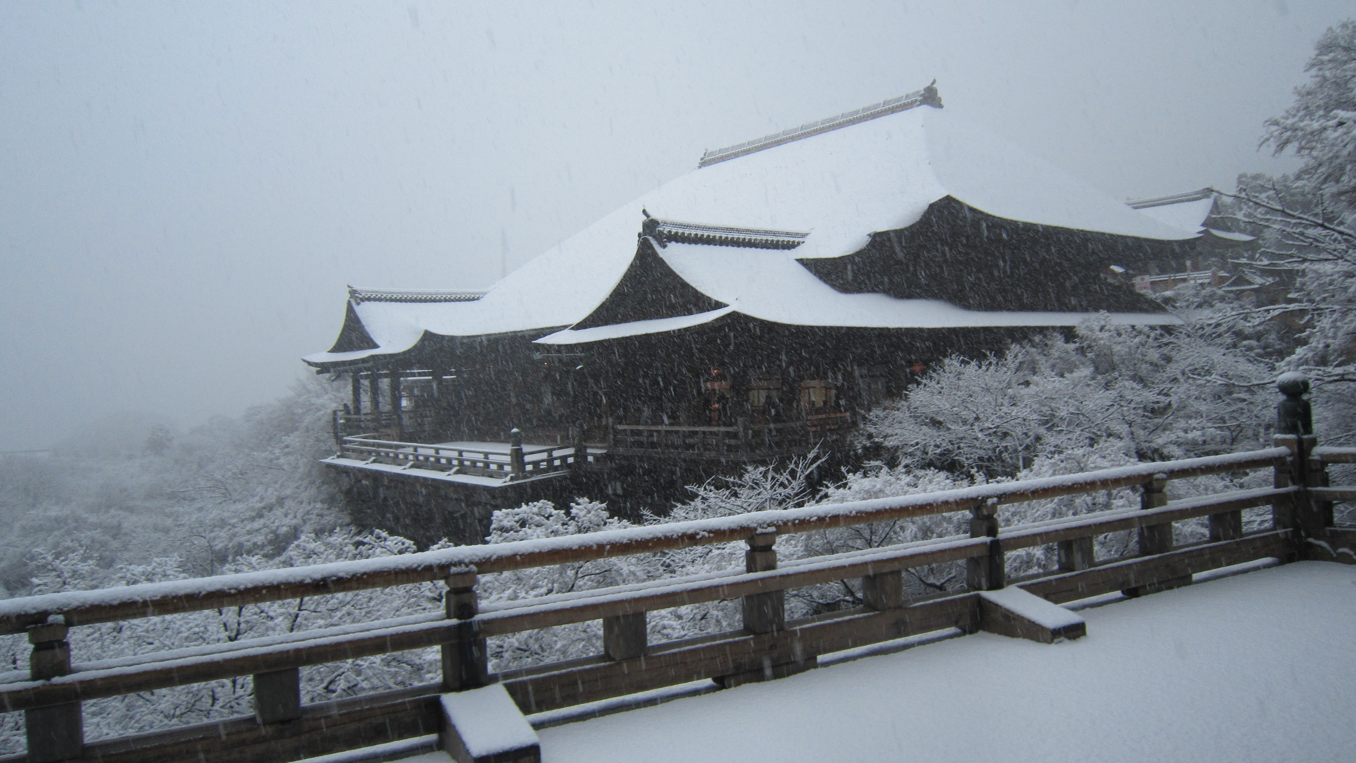 Kiyomizudera in Winter